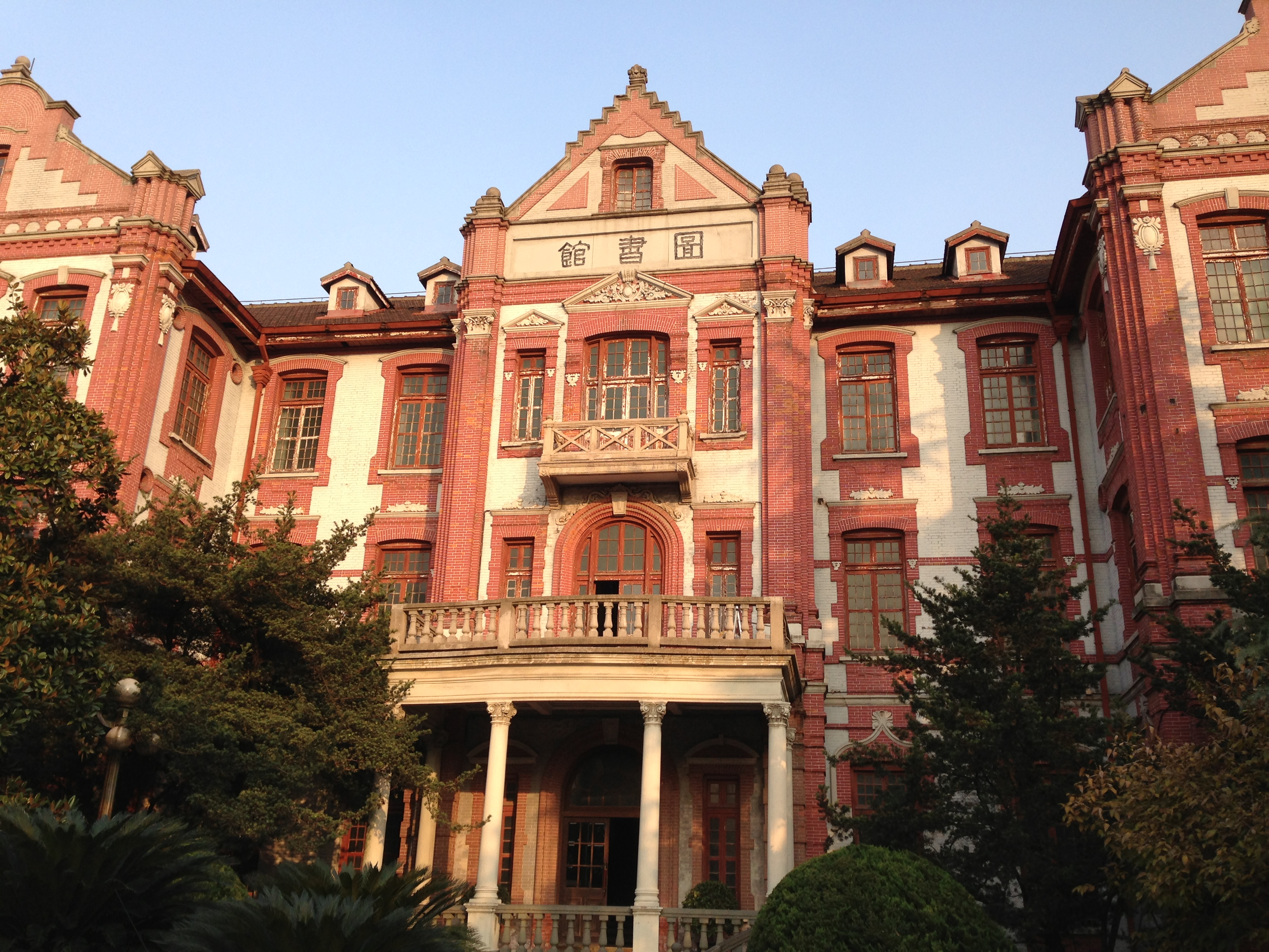 Old library at Shanghai Jiao Tong University Xuhui Campus.